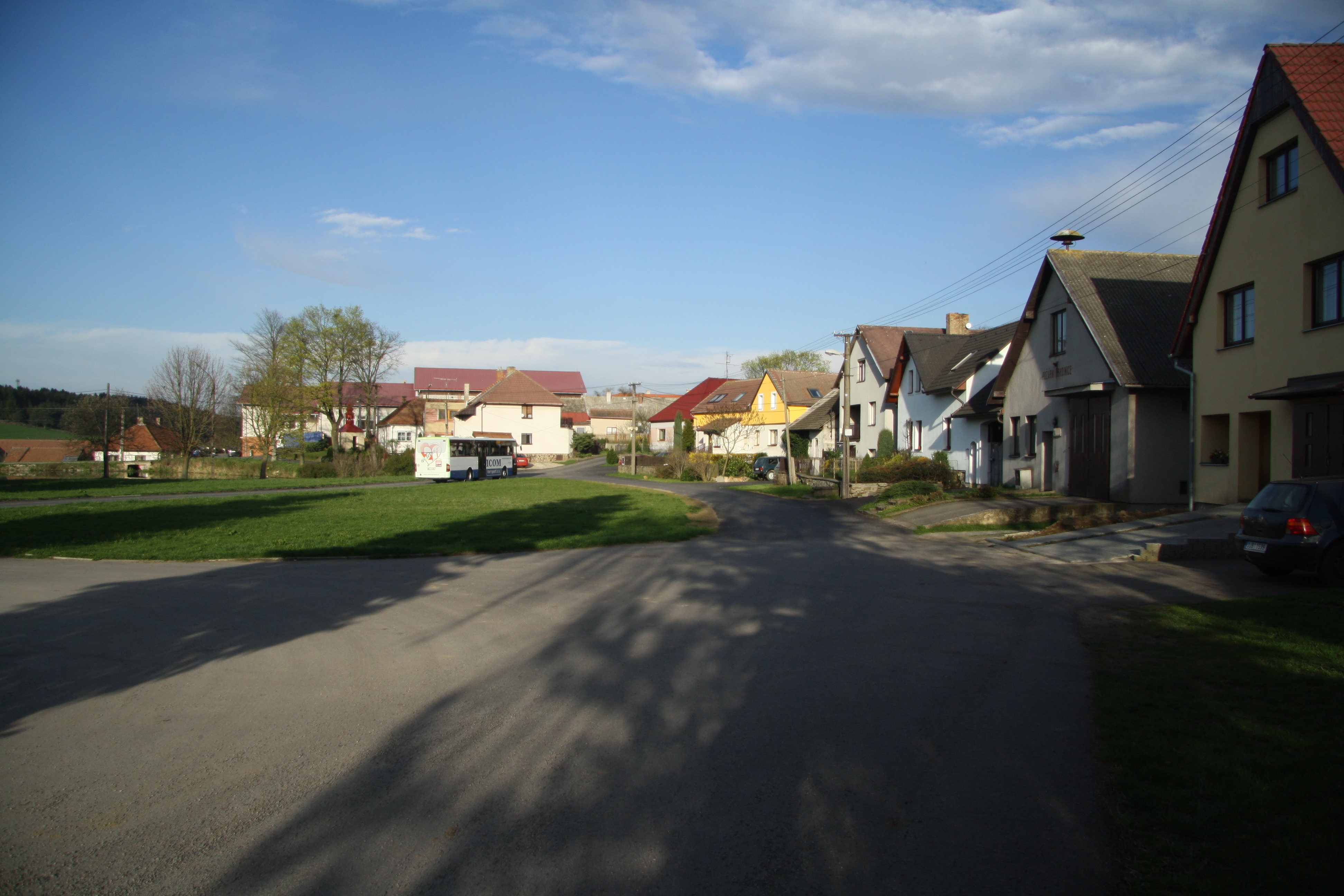 Center of Panská Lhota, Brtnice, Jihlava District.